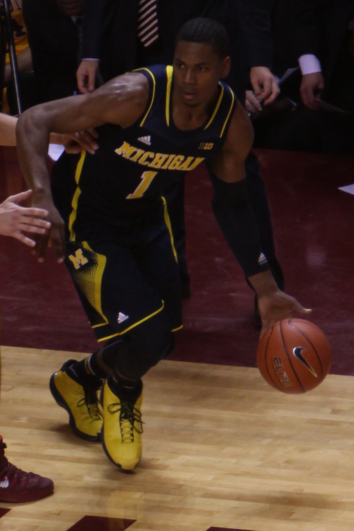 Glenn Robinson III at Williams Arena